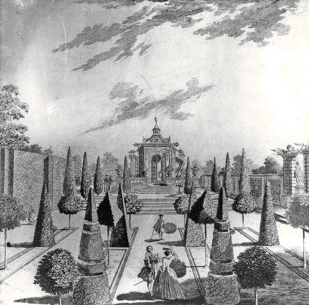 Chinese Pavillon and the Baroque topiary garden, in the Gardens of Branicki Palace, in Białystok, Poland. 1750s print by architect Pierre Ricaud de Tirregaille (French).